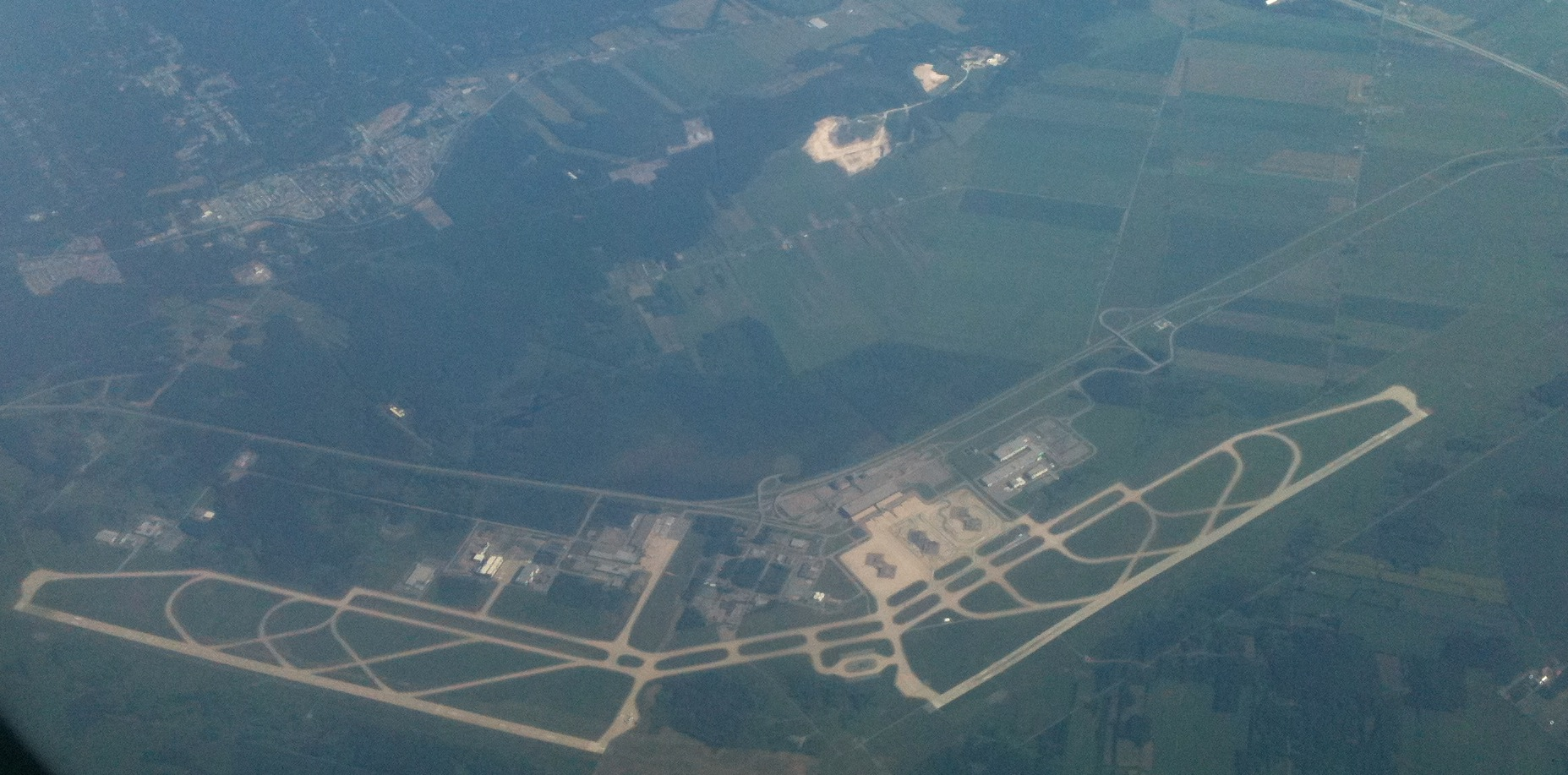 An aerial photograph from a Porter Air Flight of the Montréal Mirabel International Airport.